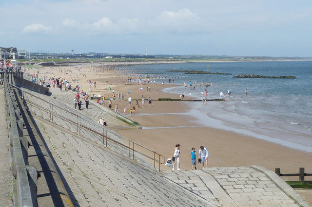 Summer at Aberdeen Beach The unusual sight of a busy day at Aberdeen Beach!